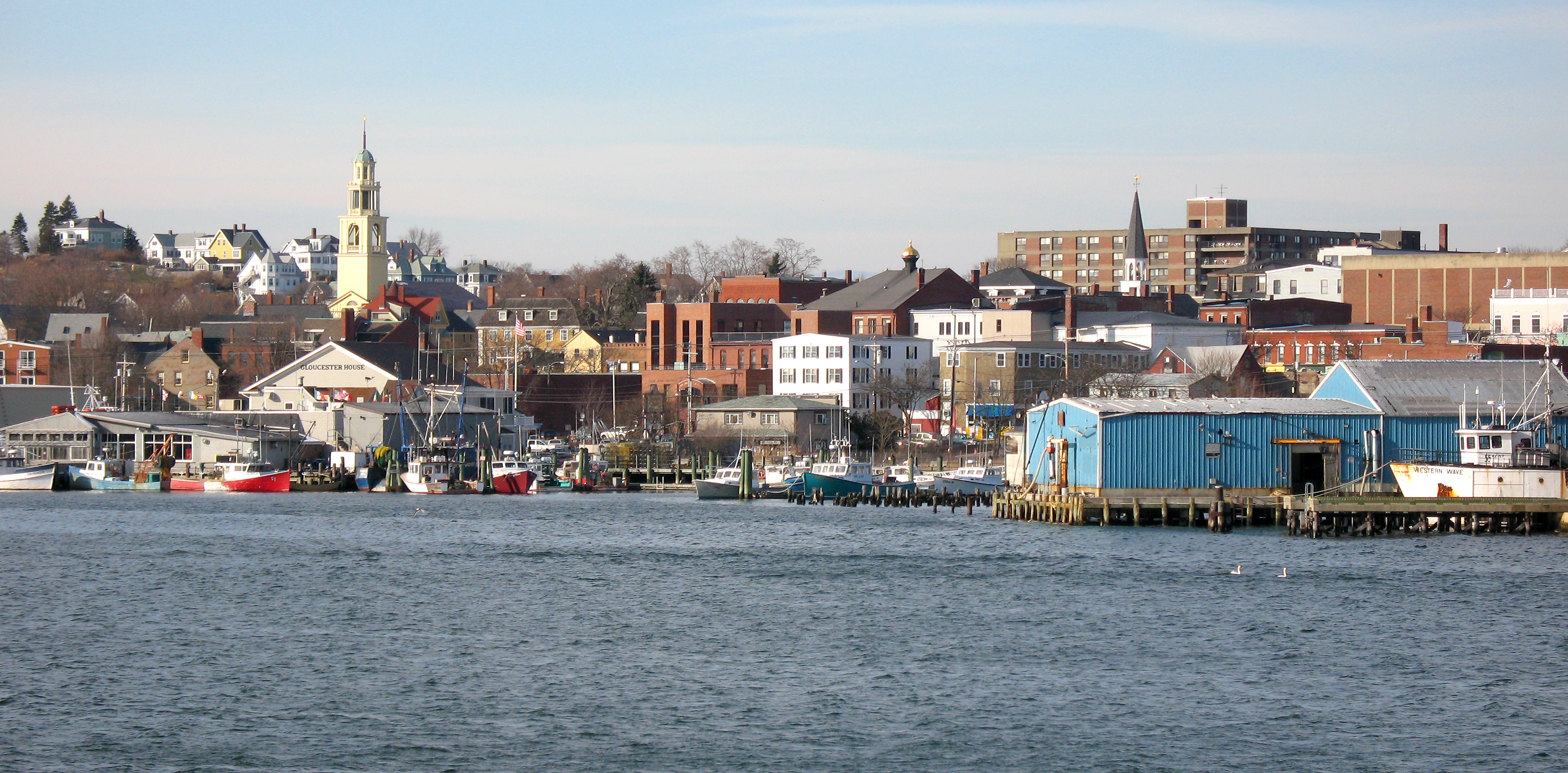 The harbour of Gloucester, Massachusetts, USA